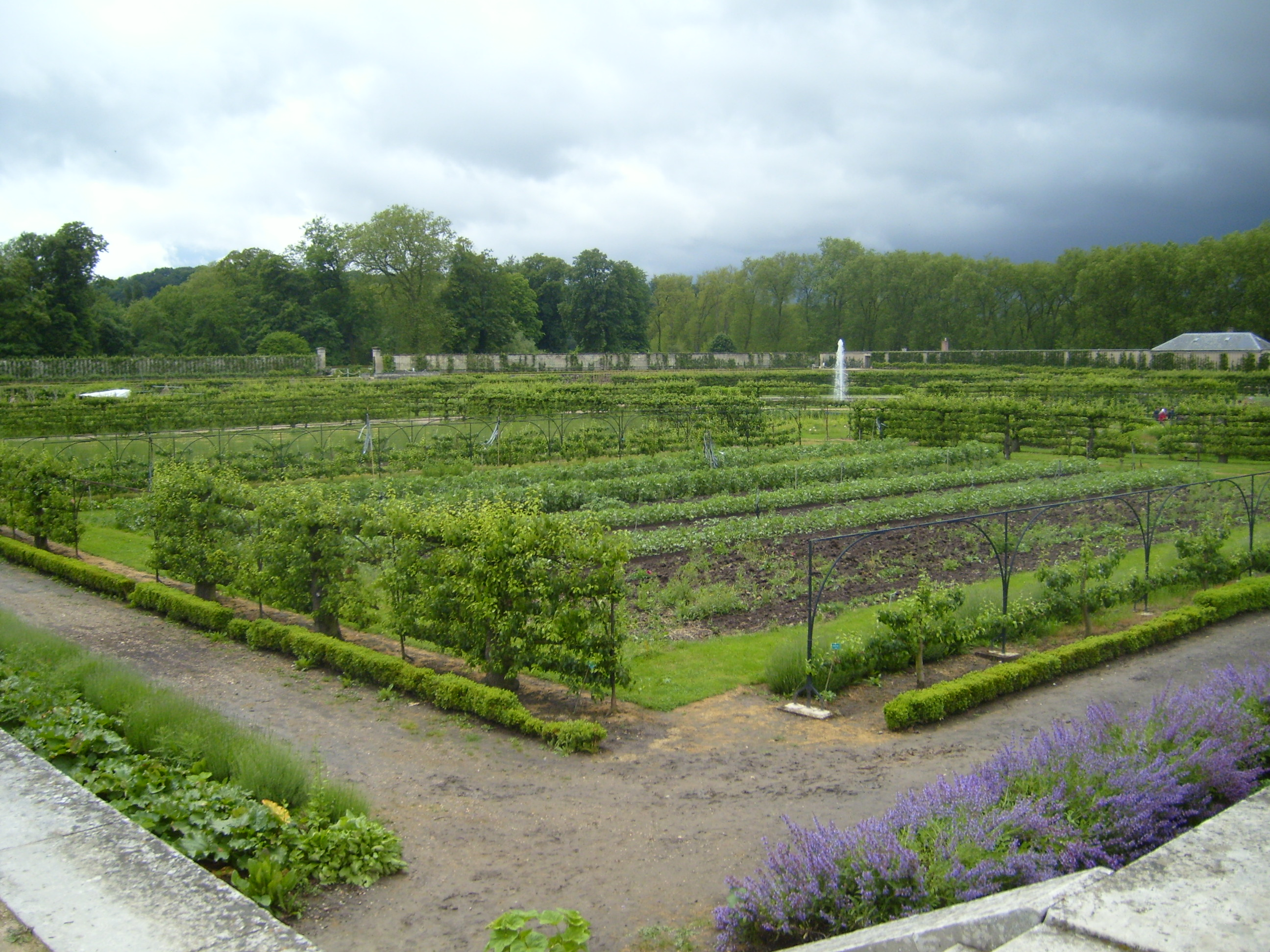 Grand Carre of the Potager du roi, Versailles